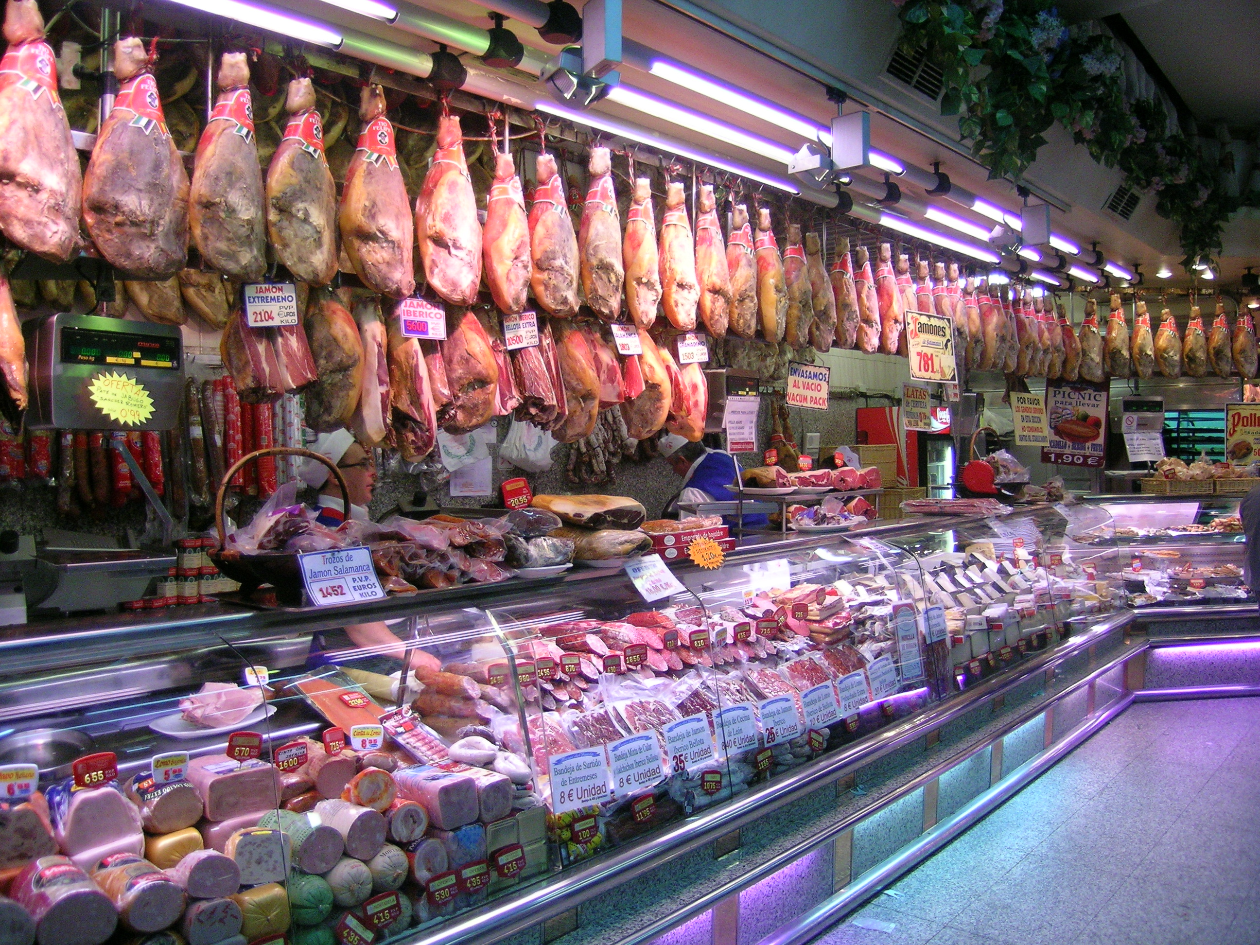 taken inside one of the several "museo del Jamon" (ham museum) in Madrid. They are both shop and bar, having a wide selection of Spanish Hams.